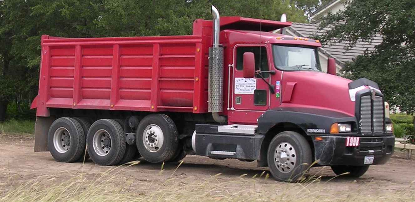 Triaxle dump truck.